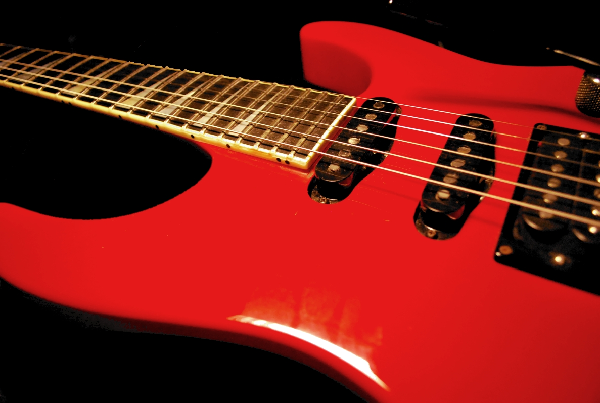 Jackson Soloist San Dimas Custom Shop 1985